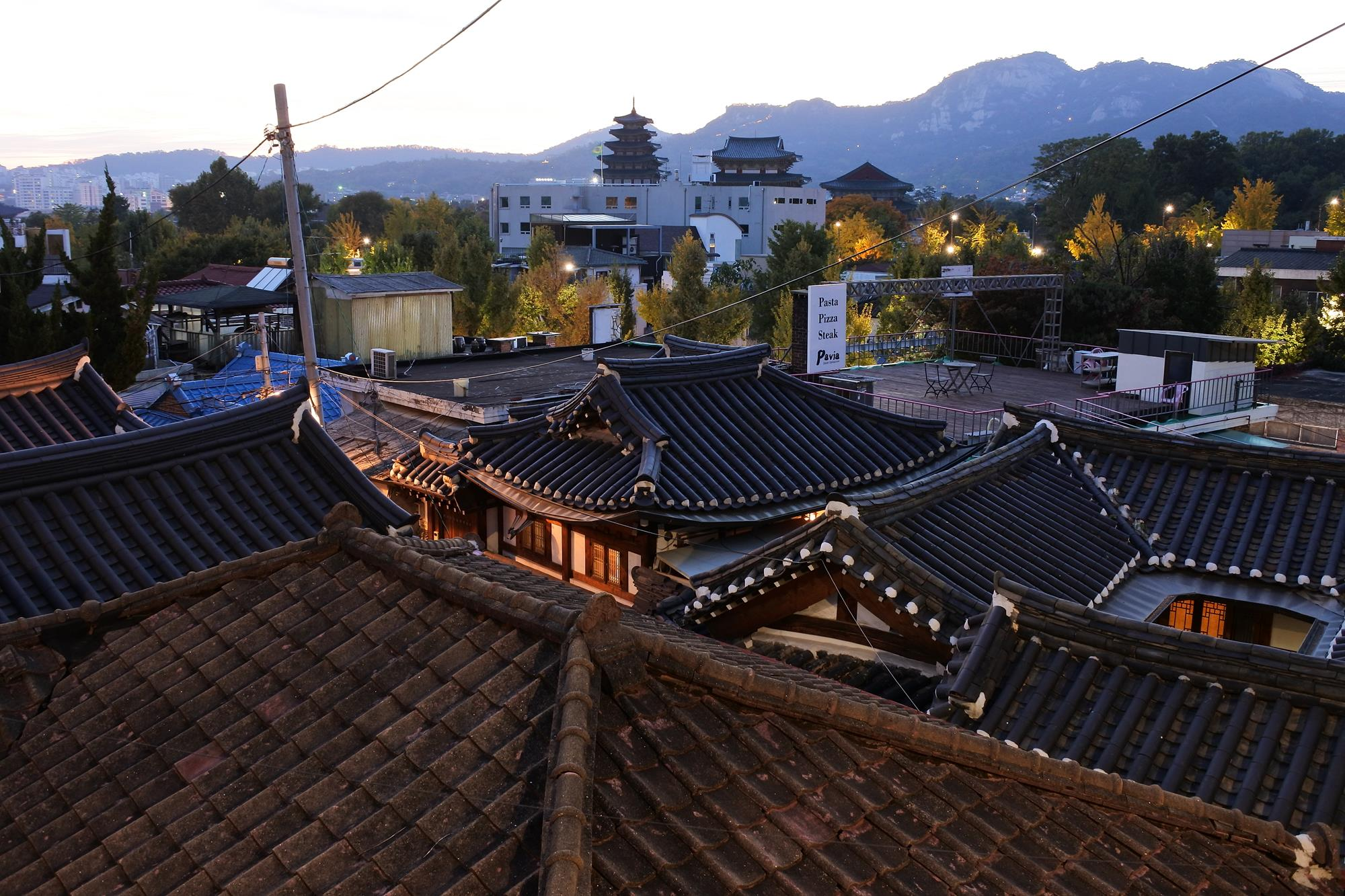 Hanok Roofs at Night, Bukcheon Village, Seoul